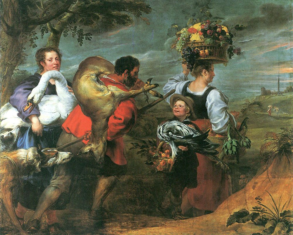 Peasants on the Way to the Market.label QS:Len,"Peasants on the Way to the Market."label QS:Lnl,"Boeren op weg naar de markt."